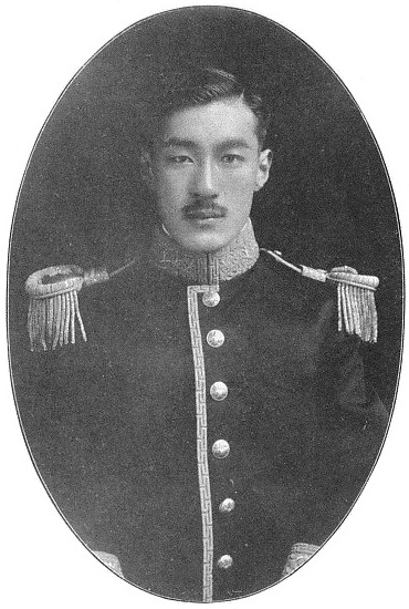 Kuwashi Katsu